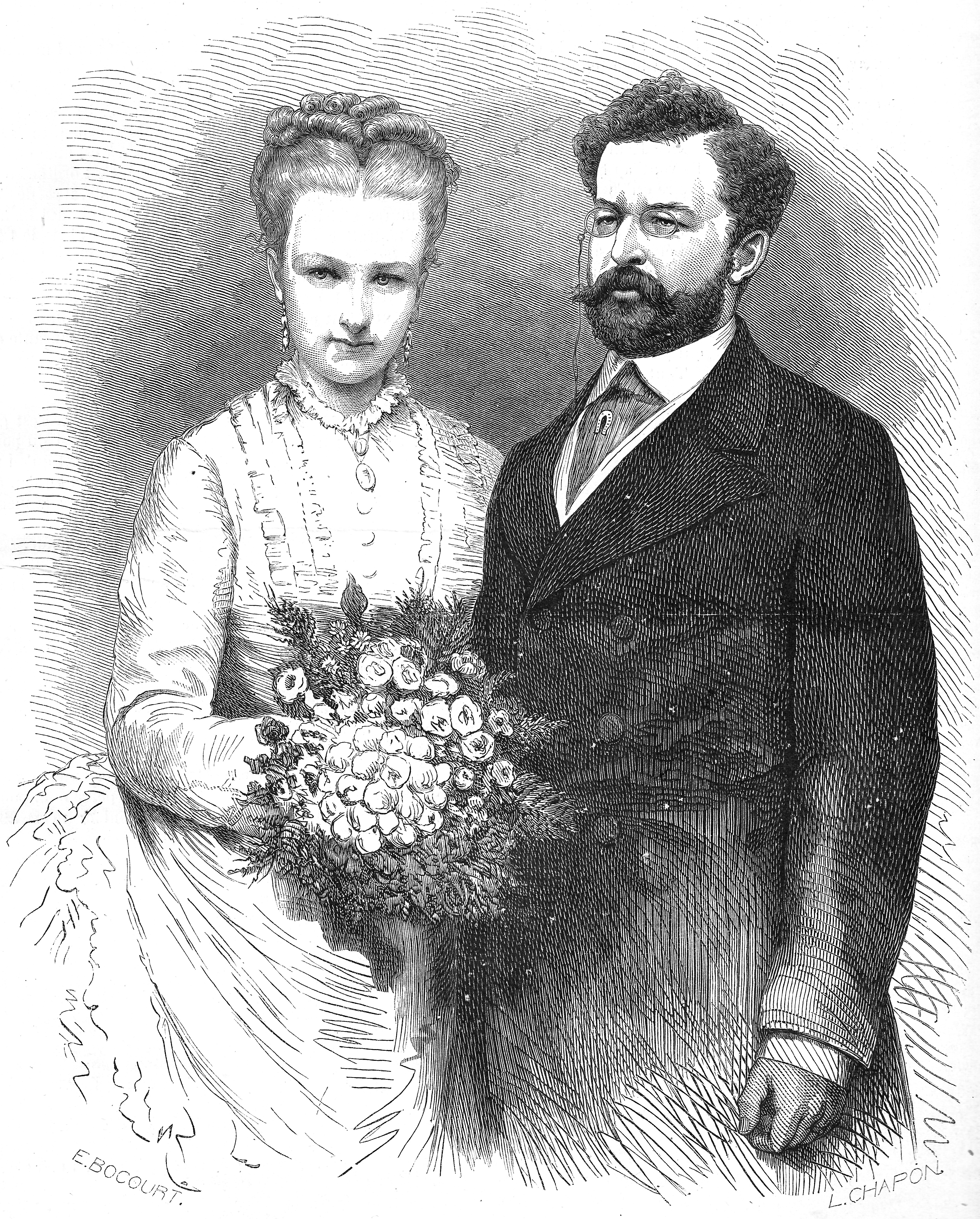 HH.RR.HH. Princess Louise of Belgium and prince Philippe of Saxe-Coburg-Gotha-Kohary. — Engraving after a photograph taken at the time of their marriage in Brussels, on 4 February 1875.